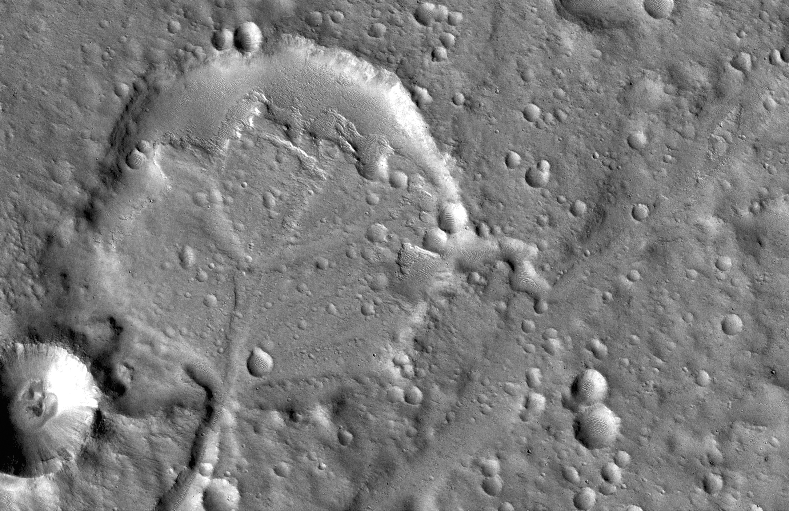 Nanedi Valles, in the Xanthe Highlands on Mars, opens into an impact crater approximately five kilometres across. Channels within the crater show evidence of flowing water in the past. Read more at DLR.de.